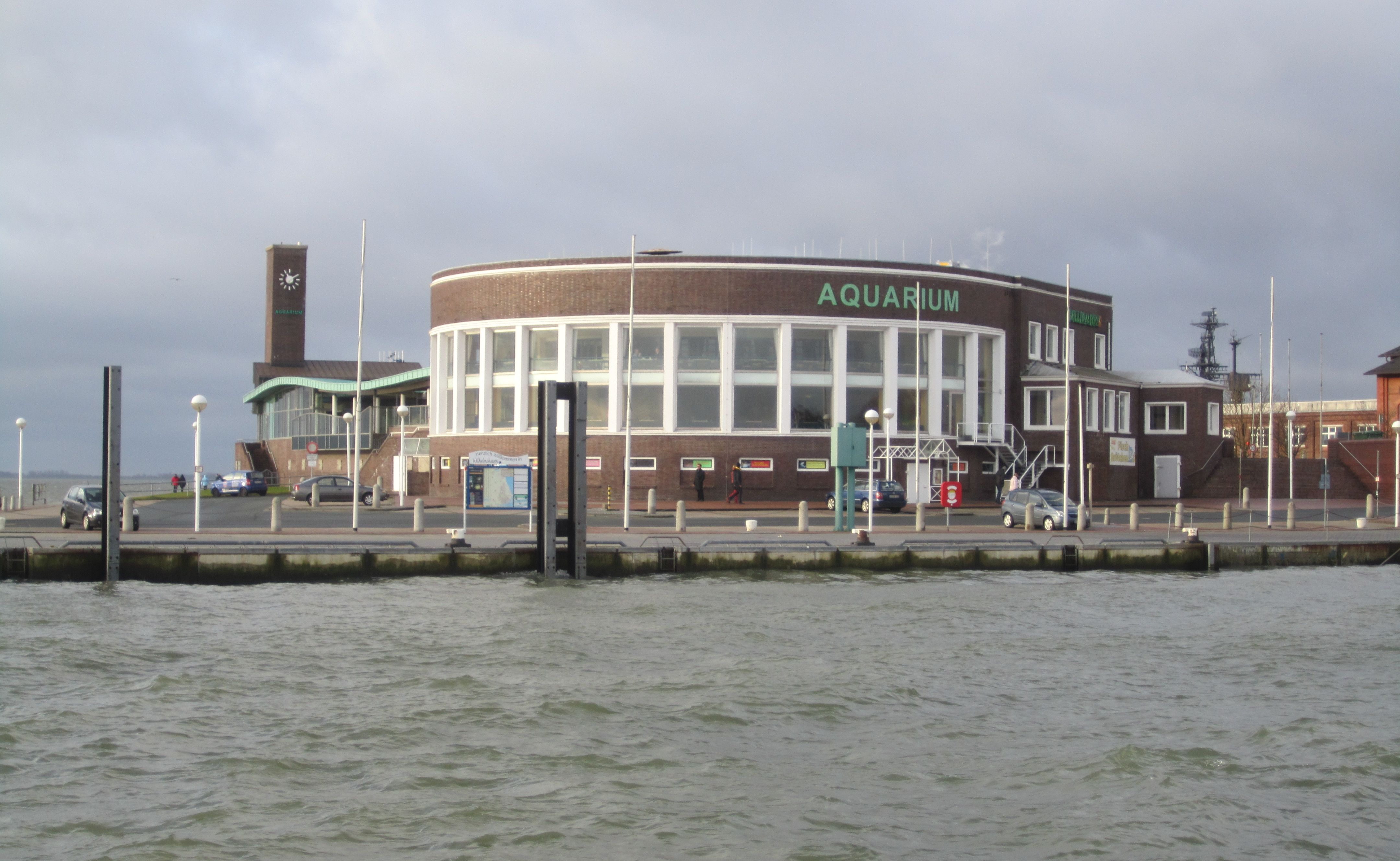 Hall in Wilhelmshaven, Germany.